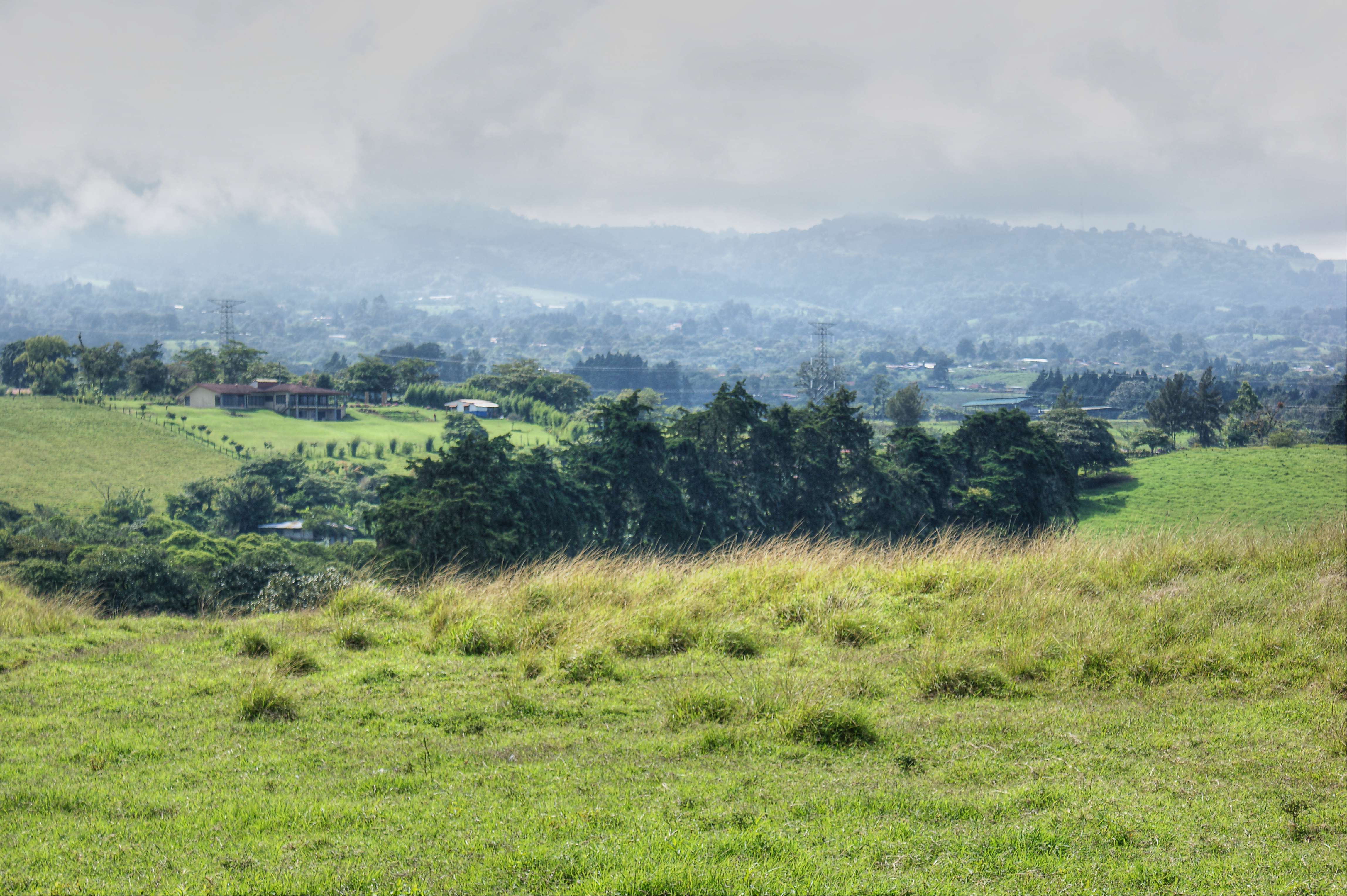 Paracito, Moravia landscape